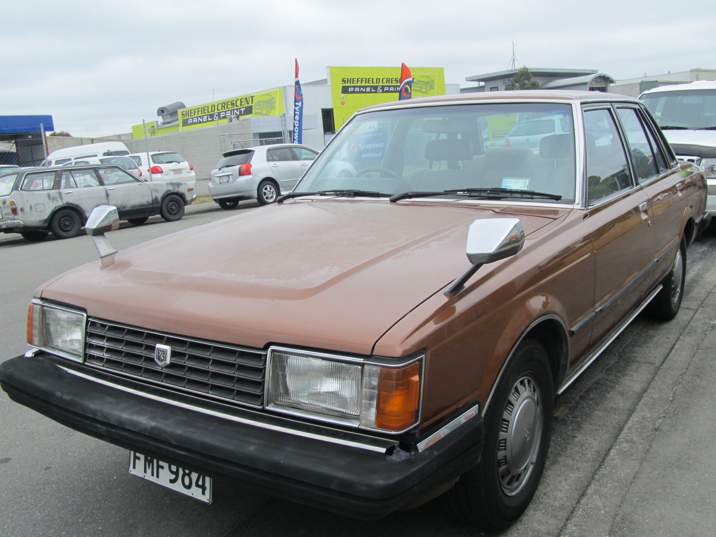 A photo from nearly 4 1/2 years ago, when my photography wasn't quite as great! This was a fabulous original Chaser in brown with brown interior, imported from Japan in the early import days of 1989. It is a variant of the Toyota Mark II/Cressida designed as a 'luxury sports sedan'. Bonus primered Datsun Sunny across the street, think I have a photo of that too.